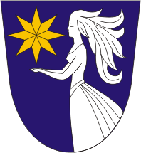 Coat of arms of Haljala vald, Estonia